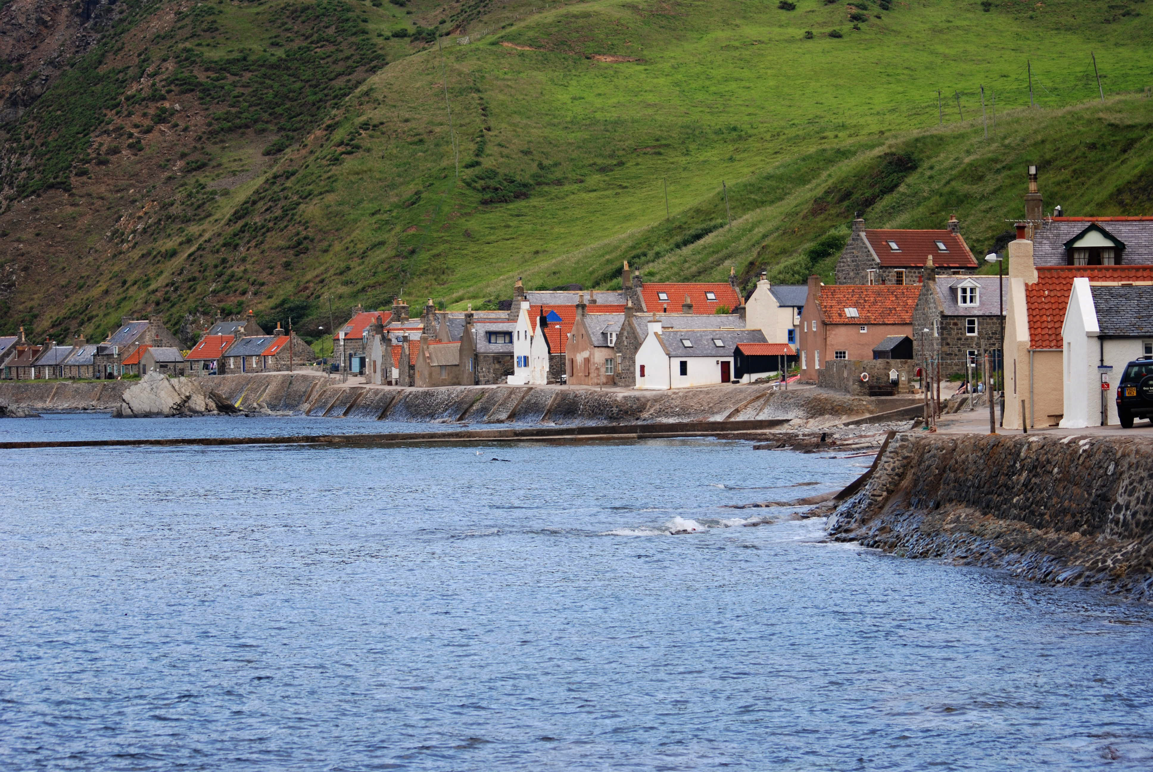 Crovie a small village in Aberdenshire, Scotland, Europe